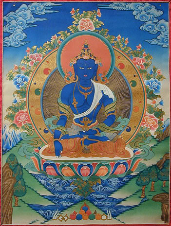 The Dhyani Buddha Akshobhya